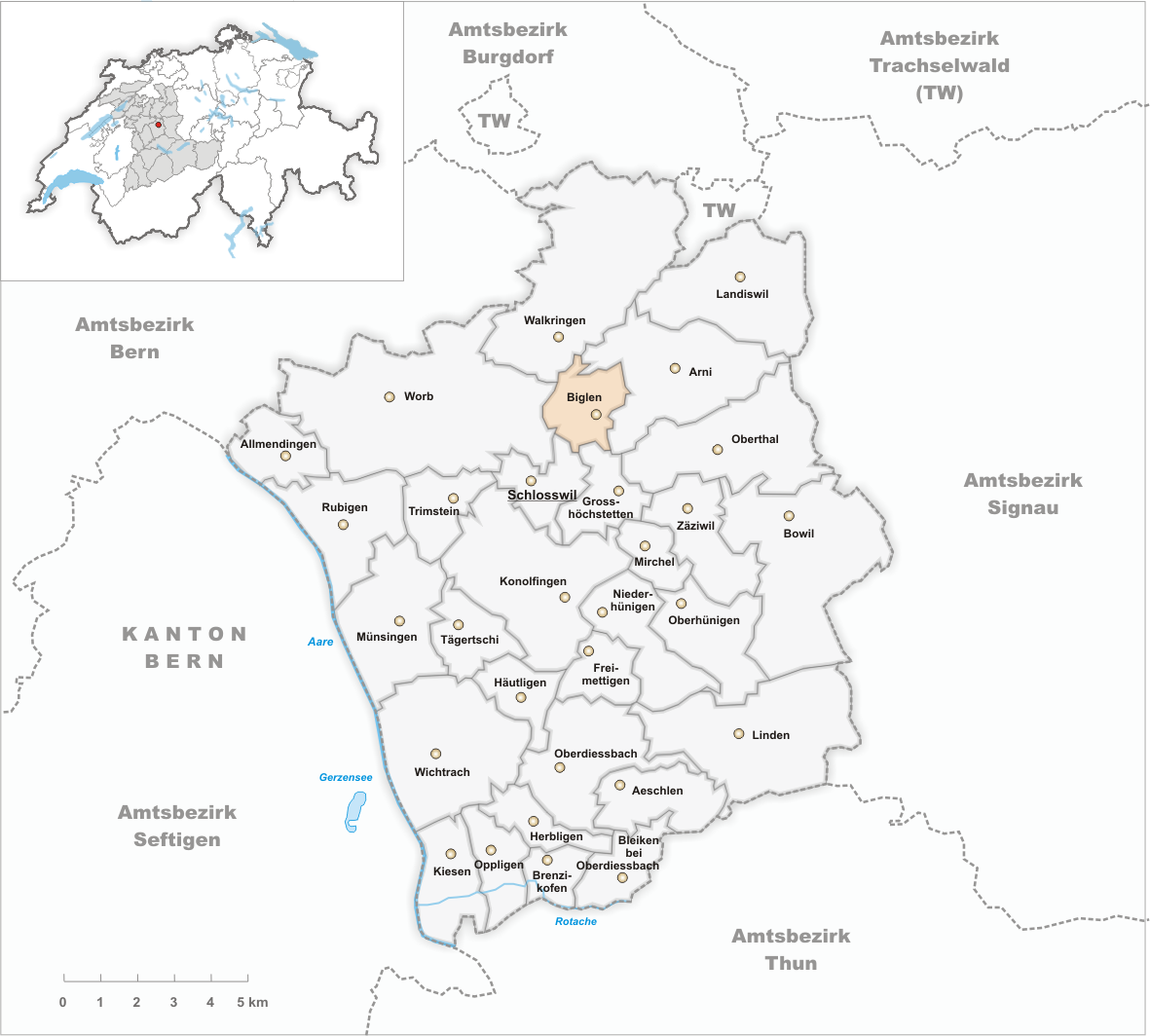 Municipality Biglen